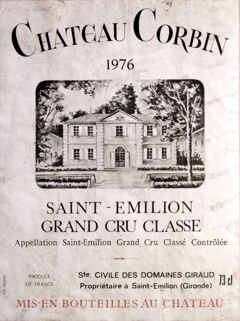 Label of a 1976 bottle of Château Corbin